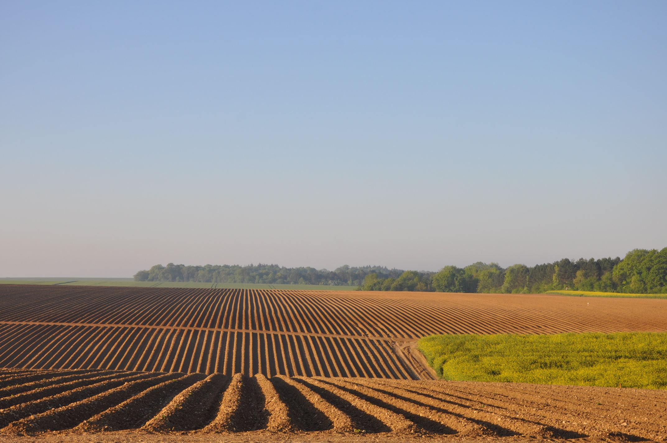 Agriculture dans le Soissonnais